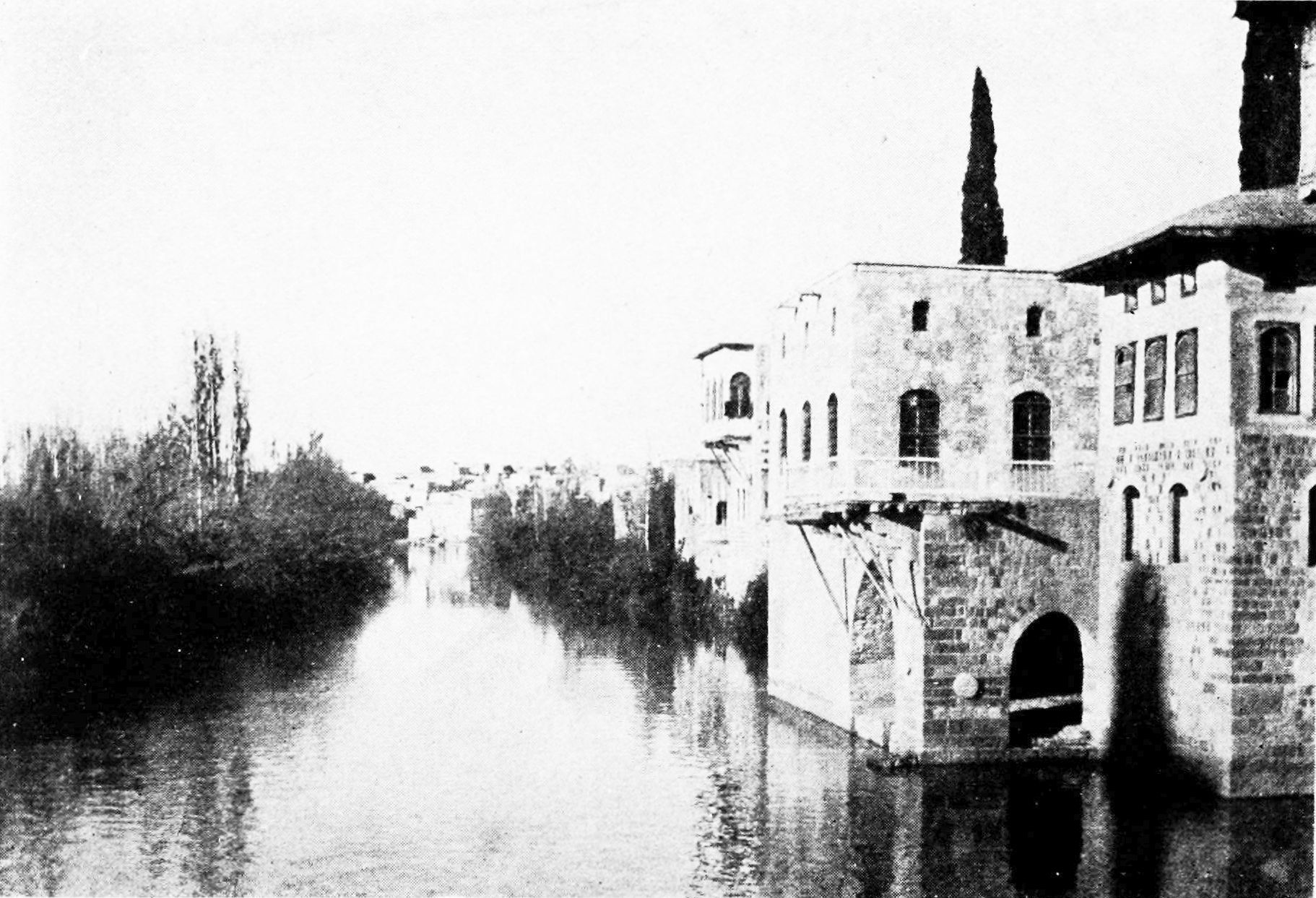 Orontes river at Hama